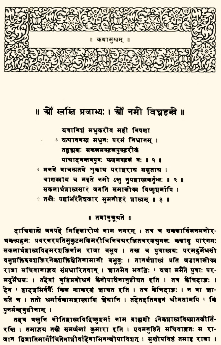 This is a photo of page 1 of the Pancatantra manuscript edition published in 1915. The source can be verified here